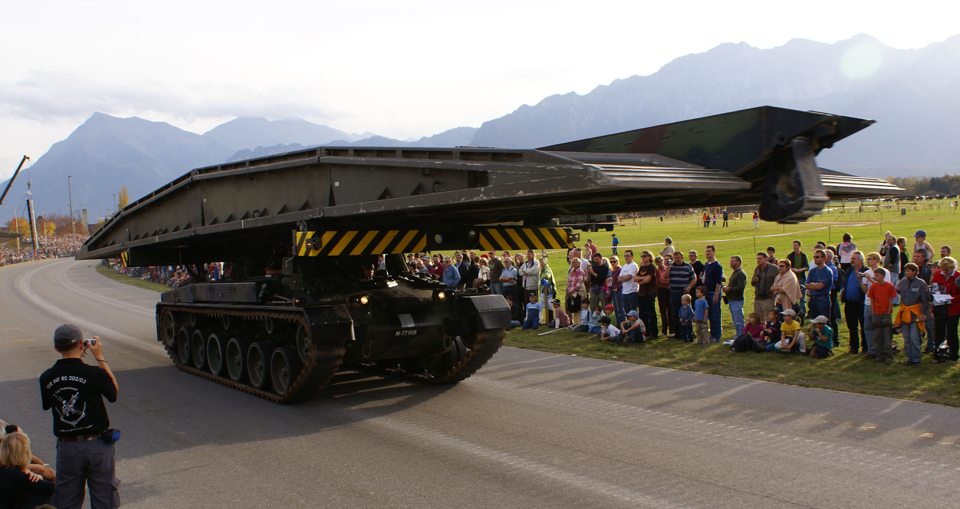 Swiss Army. Bridgelaying tank 68/88, a modification of the Tank 68, with 18.2 m armoured vehicle-launched bridge. Participating in the "Steel Parade" of the 2006 Army Days, Thun.